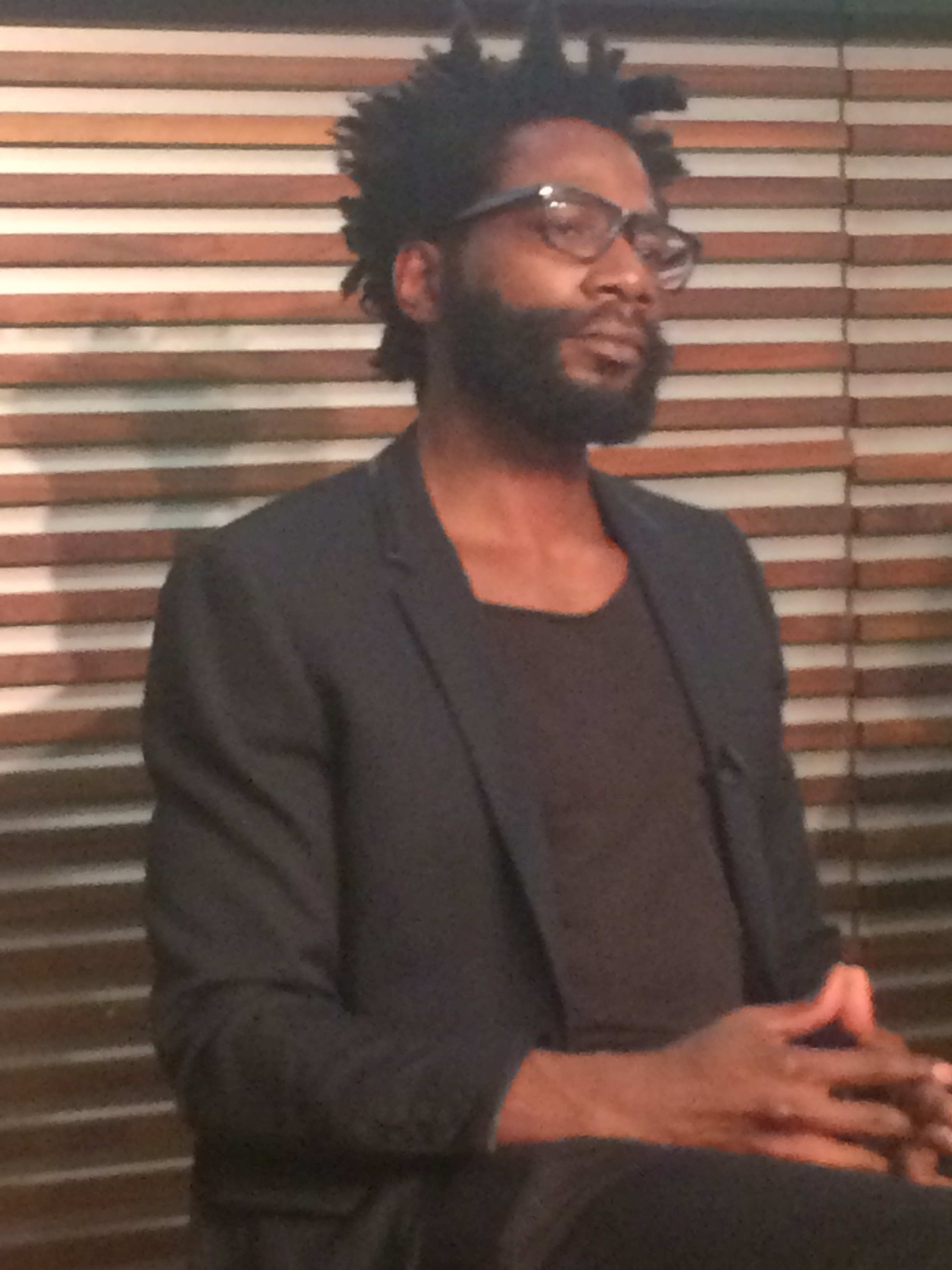 Michael Salu at the Free Word Centre, London November 2015